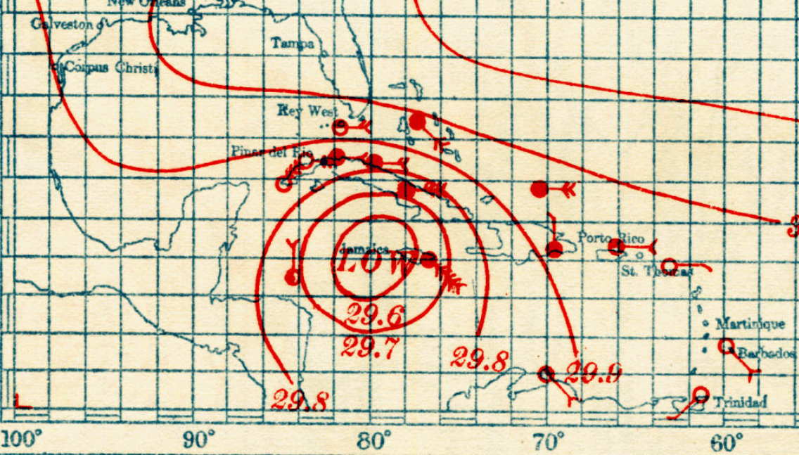 A partial surface weather analysis of the 1915 Galveston hurricane in the western Caribbean Sea at 8:00 a.m. Central US Time on August 13, 1915.